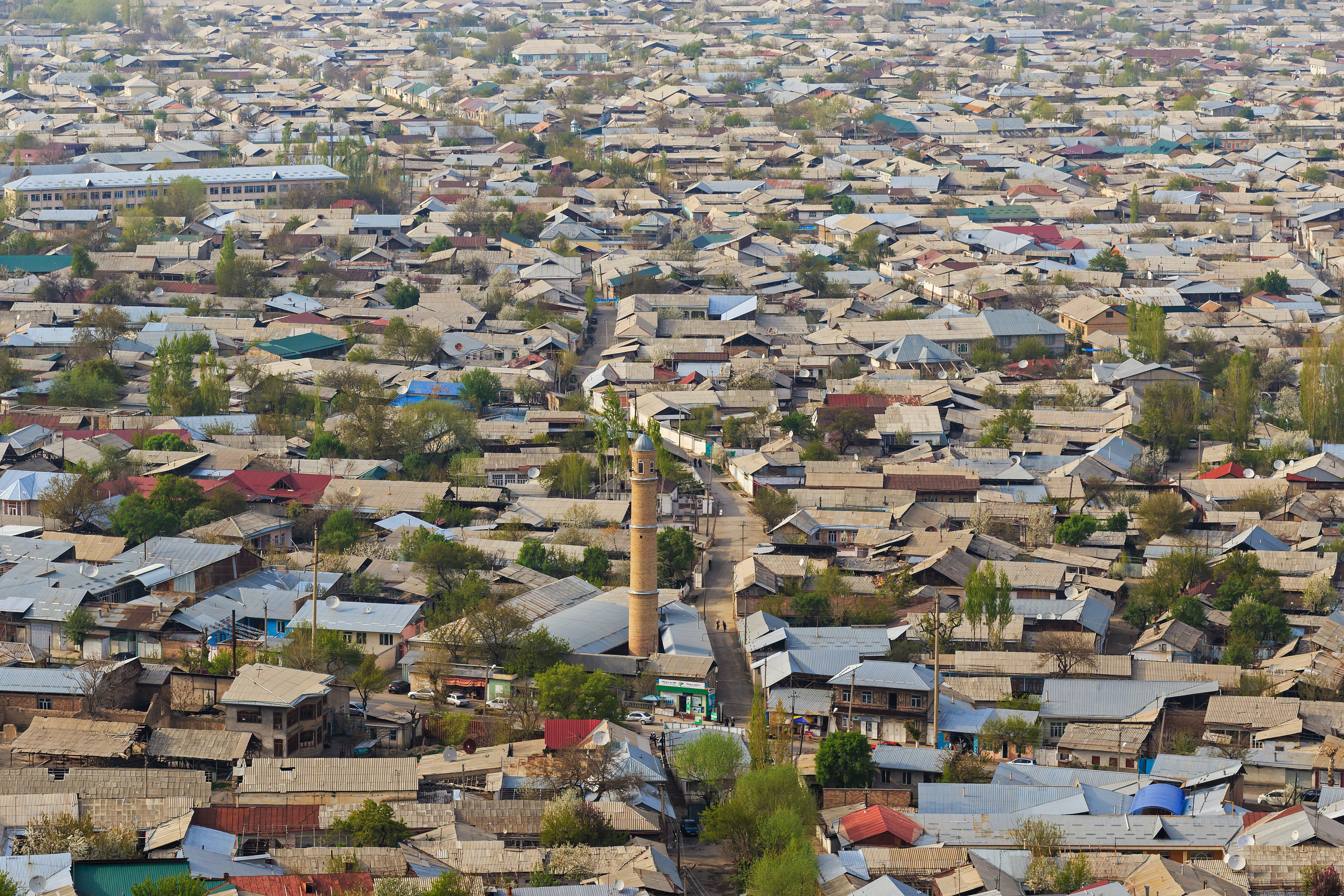 View from Sulayman Mountain in Osh, Kyrgyzstan